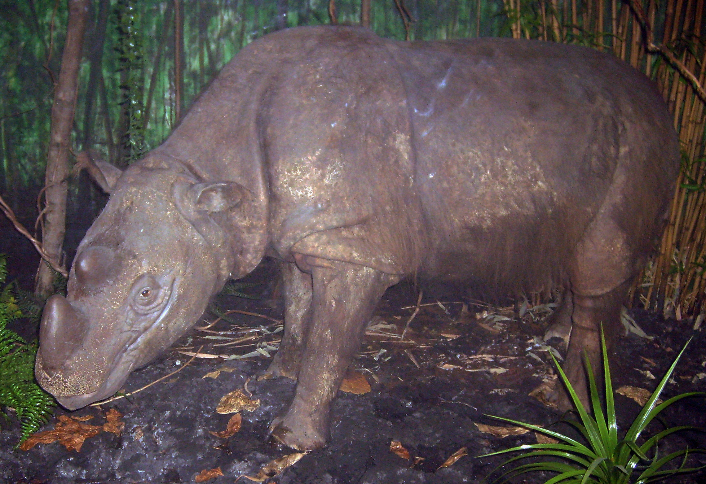 The taxidermied remains of the only Sumatran rhinoceros that lived in captivity (Copenhagen Zoo) by 1972, a female called "Subur", at the Zoological Museum in Copenhagen.